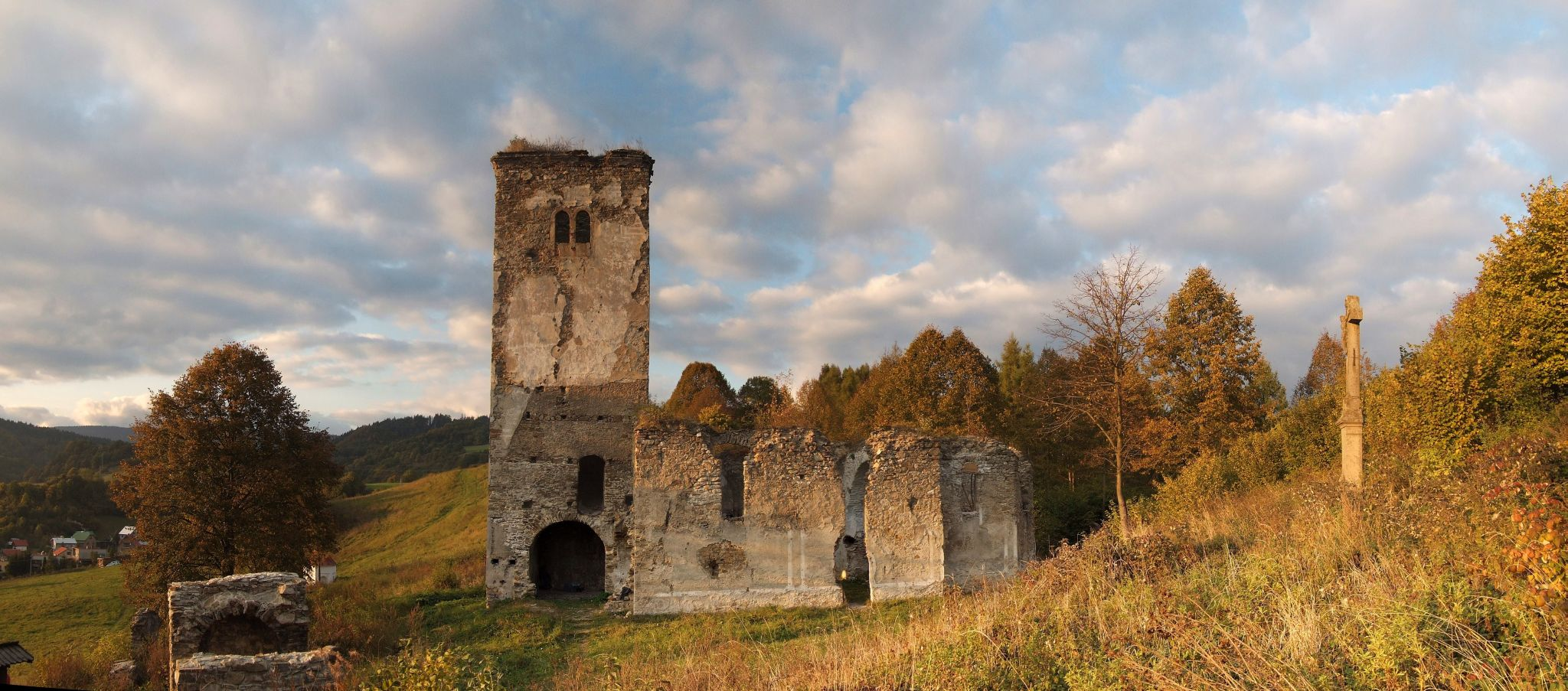 Church of Saints Cosmas and Damian in Sedliacka Dubova, Slovakia in autumn